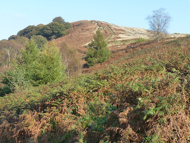 Mynydd Machen Common. For a similar view under very different weather conditions see 643561.